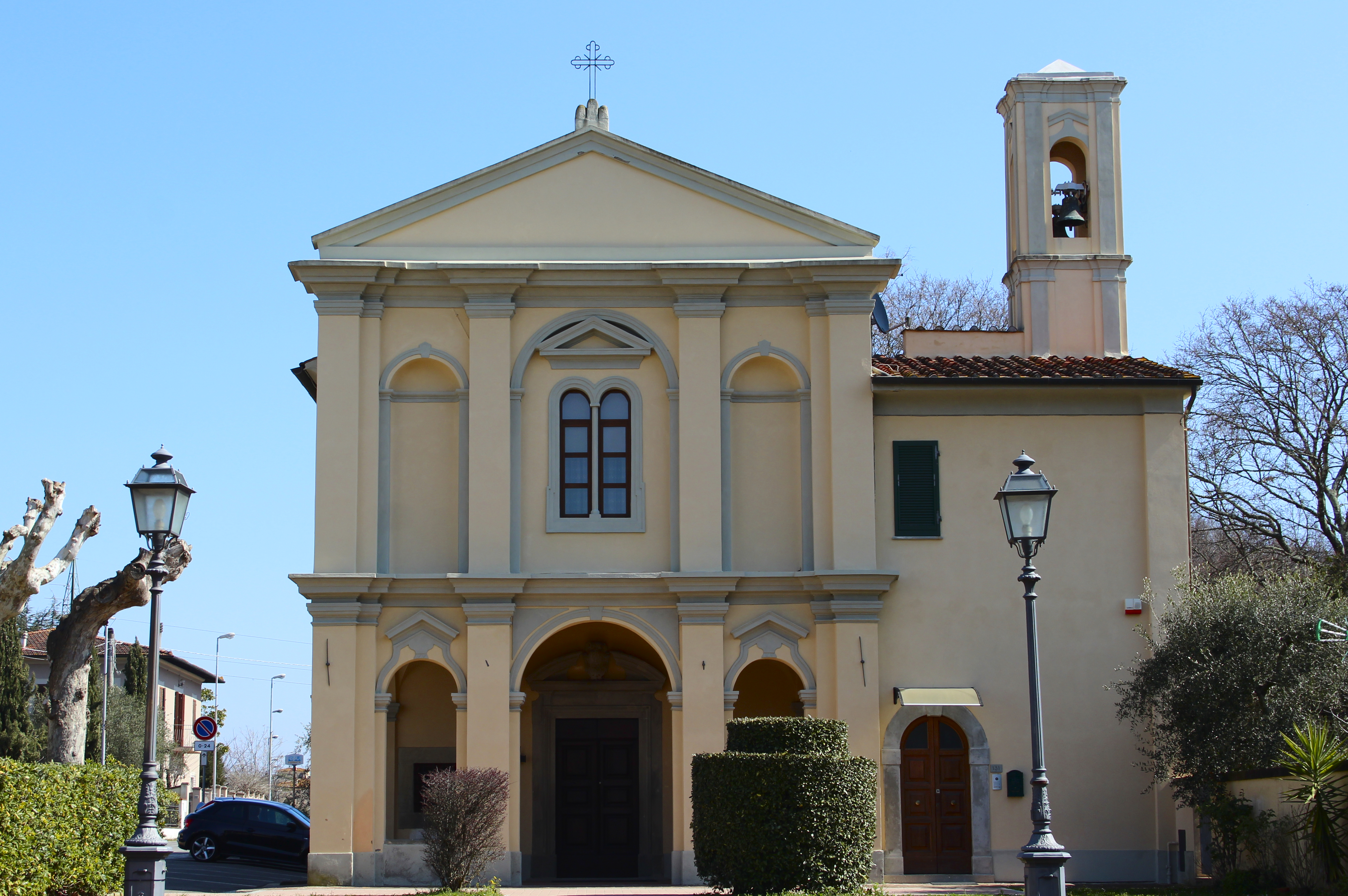 Church Madonna del Bosco, Santa Colomba, hamlet of Bientina, Province of Pisa, Tuscany, Italy